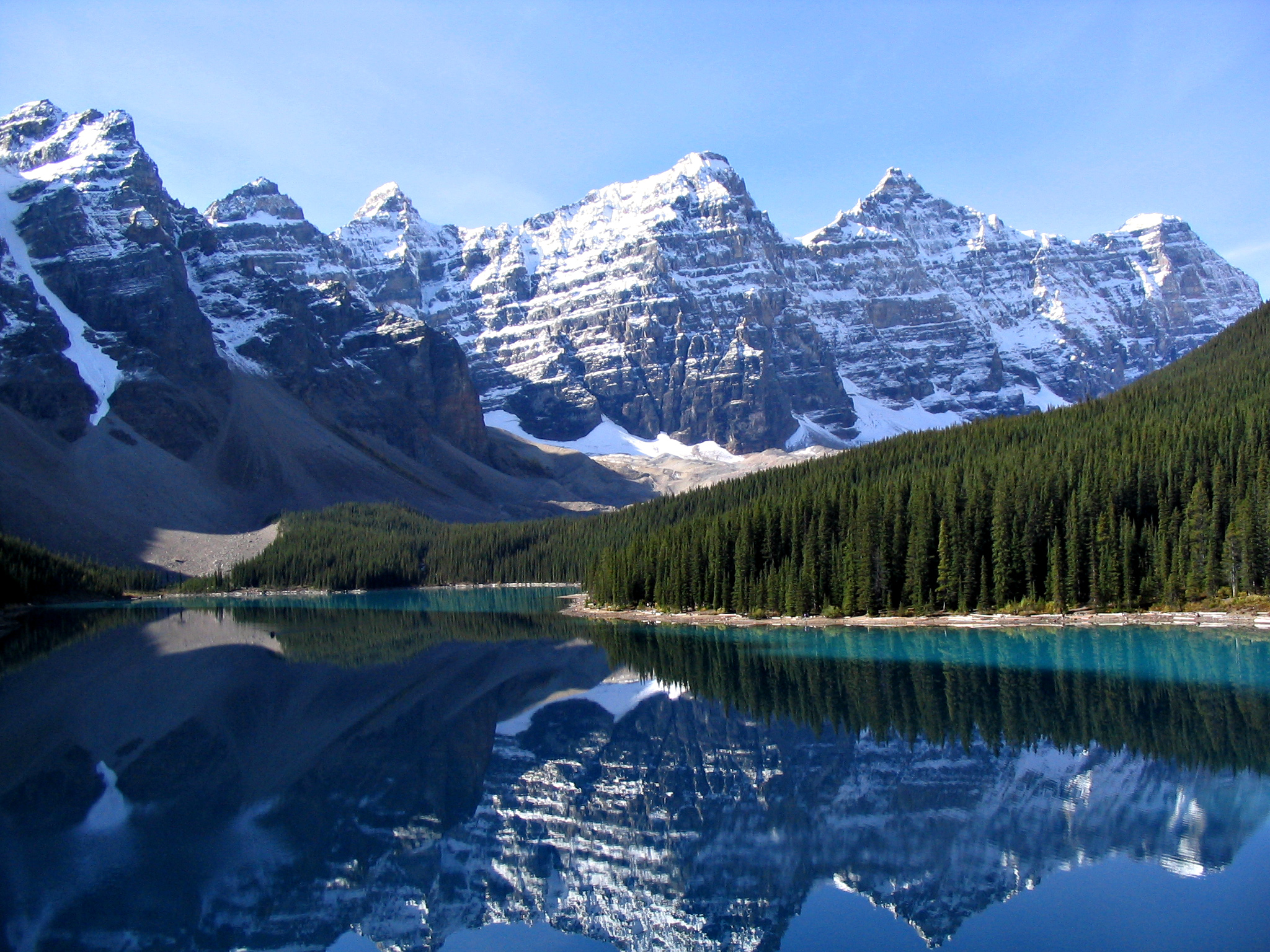 Valley of the Ten Peaks and Moraine Lake, Banff National Park, Canada. Mountains from left to right: Tonsa (3057 m), Mount Perren (3051 m), Mount Allen (3310 m), Mount Tuzo (3246 m), Deltaform Mountain (3424 m), Neptuak Mountain (3233 m) Francais : Lac Moraine dans le Parc national Banff, au Canada.